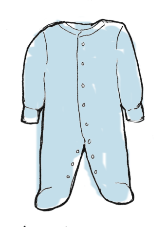 Baby blue one-piece / sleeper / sleep & play / pajamas / sleepsuit